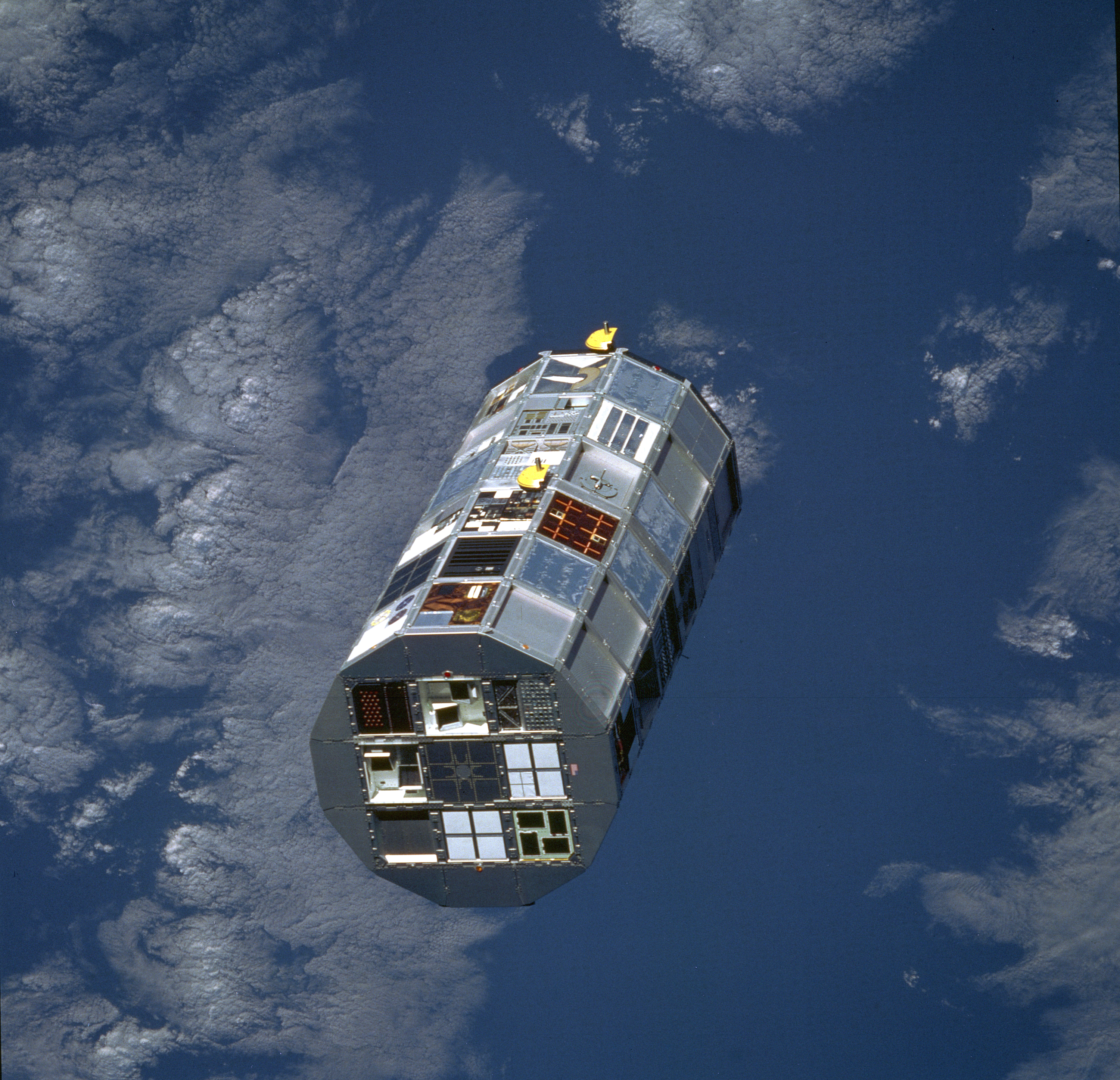 The Long Duration Exposure Facility (LDEF) was designed by the Marshall Space Flight Center (MSFC) to test the performance of spacecraft materials, components, and systems that have been exposed to the environment of micrometeoroids and space debris for an extended period of time. The LDEF proved invaluable to the development of future spacecraft and the International Space Station (ISS). The LDEF carried 57 science and technology experiments, the work of more than 200 investigators. MSFC`s experiments included: Trapped Proton Energy Determination to determine protons trapped in the Earth's magnetic field and the impact of radiation particles; Linear Energy Transfer Spectrum Measurement Experiment which measures the linear energy transfer spectrum behind different shielding configurations; Atomic oxygen-Simulated Out-gassing, an experiment that exposes thermal control surfaces to atomic oxygen to measure the damaging out-gassed products; Thermal Control Surfaces Experiment to determine the effects of the near-Earth orbital environment and the shuttle induced environment on spacecraft thermal control surfaces; Transverse Flat-Plate Heat Pipe Experiment, to evaluate the zero-gravity performance of a number of transverse flat plate heat pipe modules and their ability to transport large quantities of heat; Solar Array Materials Passive LDEF Experiment to examine the effects of space on mechanical, electrical, and optical properties of lightweight solar array materials; and the Effects of Solar Radiation on Glasses. Launched aboard the Space Shuttle Orbiter Challenger's STS-41C mission April 6, 1984, the LDEF remained in orbit for five years until January 1990 when it was retrieved by the Space Shuttle Orbiter Columbia STS-32 mission and brought back to Earth for close examination and analysis.